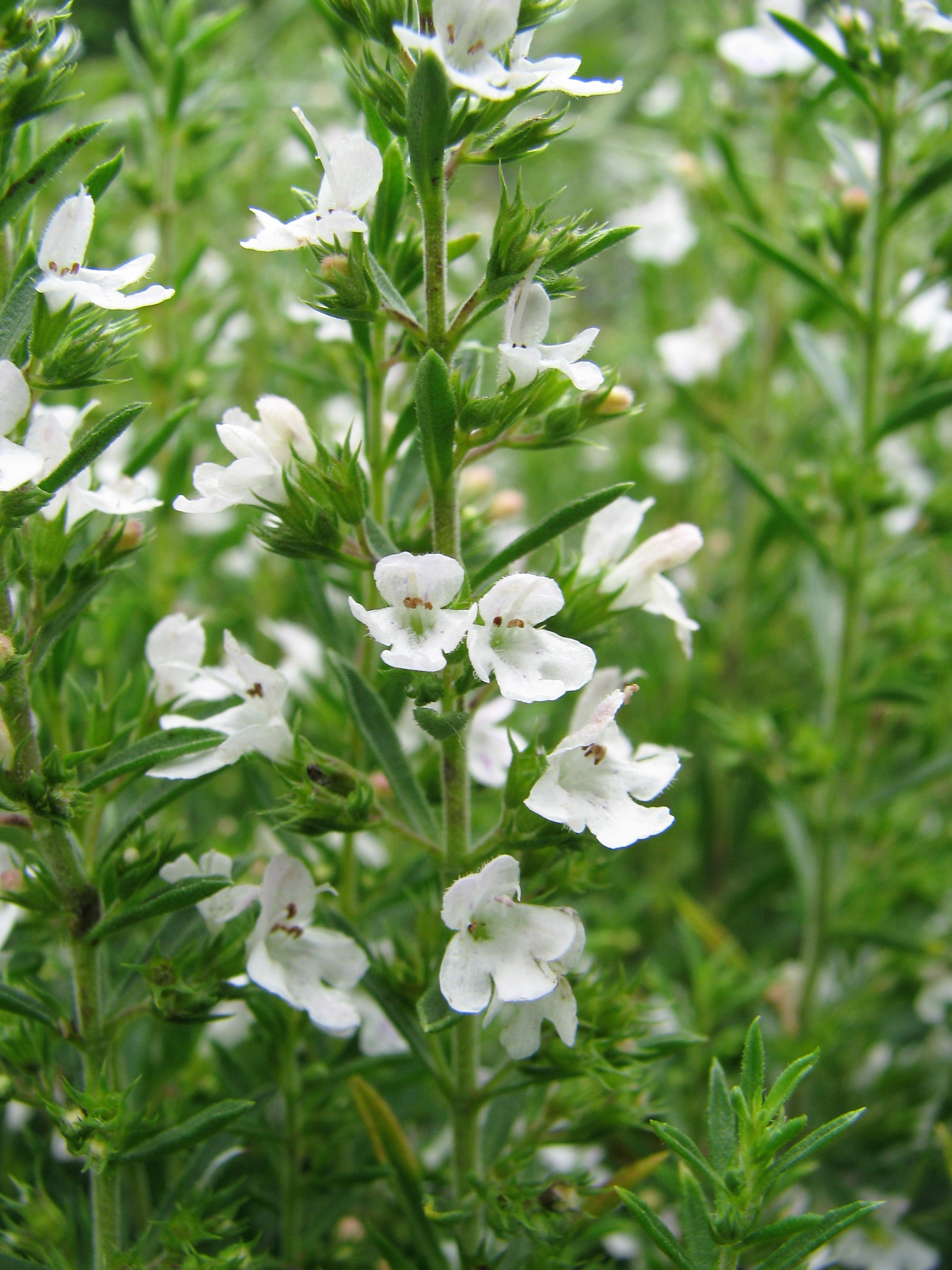 Satureja montana, plants in flower, cultivated in Wrocław University Botanical Garden, Wrocław, Poland.